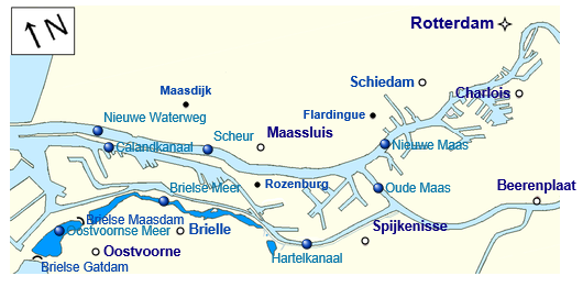 Brielse Maas today